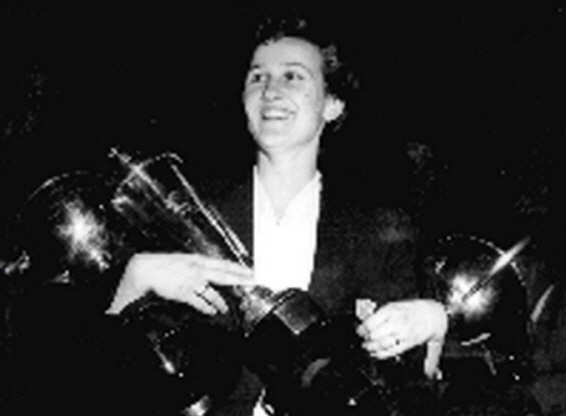 Women's badminton in Australia